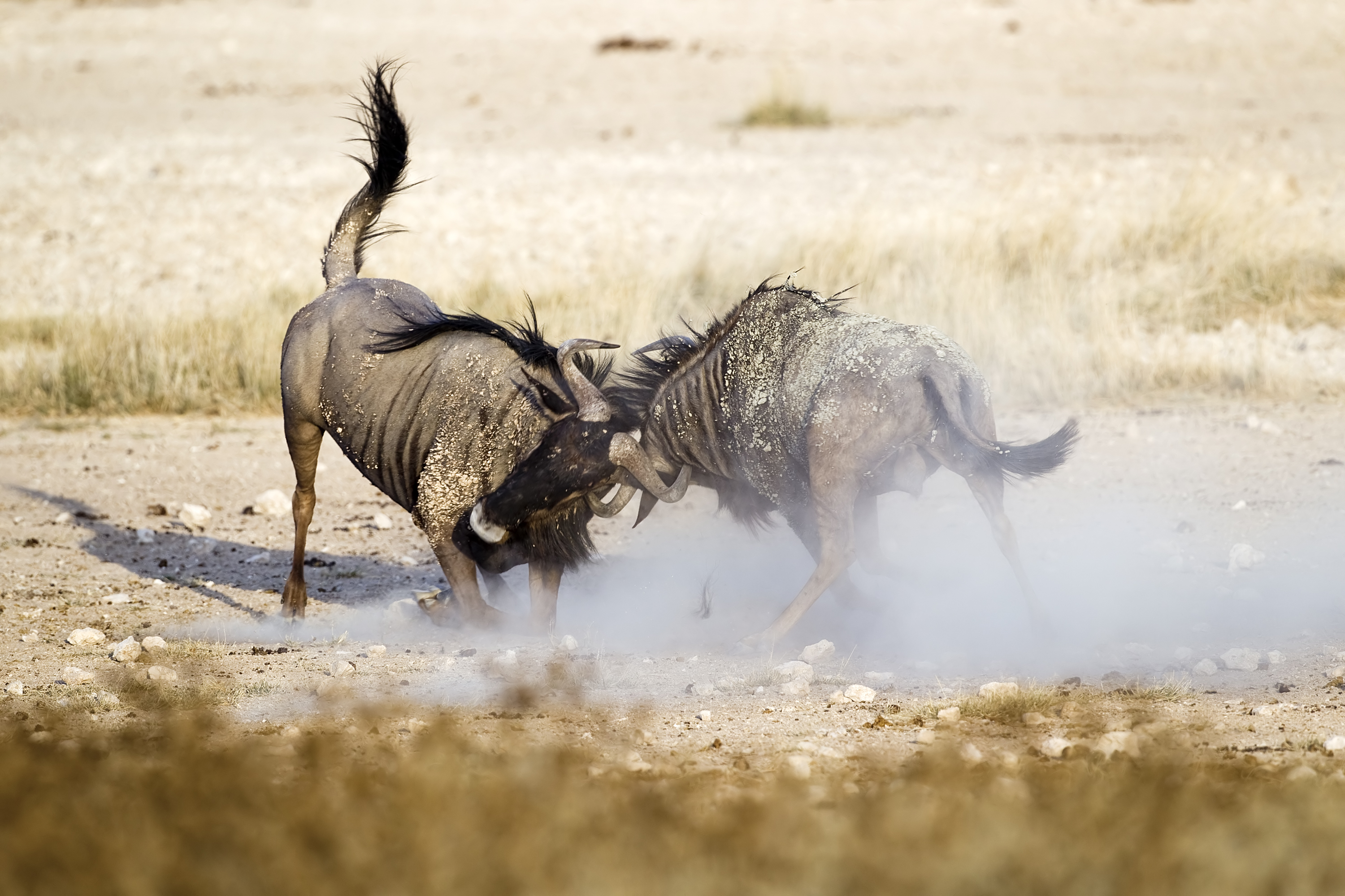 Two Blue wildebeest males in duel.